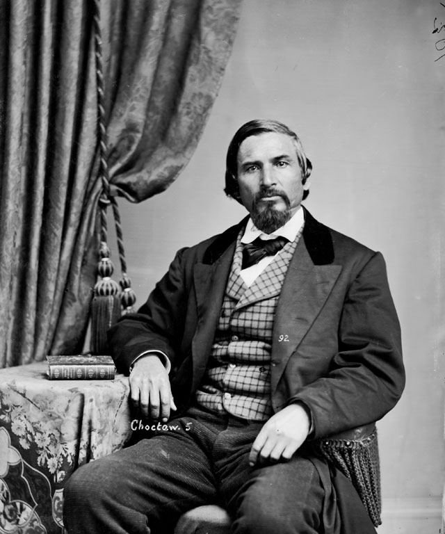 Portrait (Front) of Faunceway Baptiste or Battice (Mixed Blood) 1868. Baptiste is a multi-racial Native American who identifies mainly with his Choctaw Native American heritage rather than his white European American hertiage. This photo was taken at District of Columbia Washington.